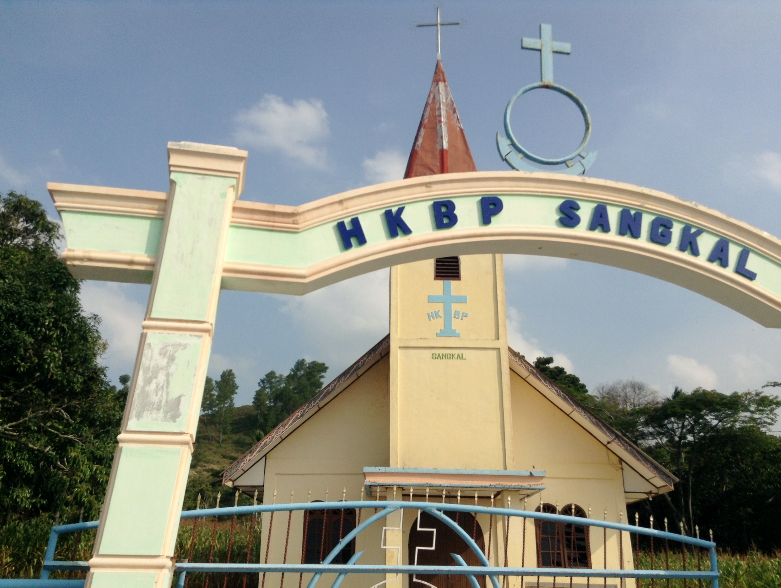 HKBP Church in Simanindo Sangkal, Simanindo, Samosir.